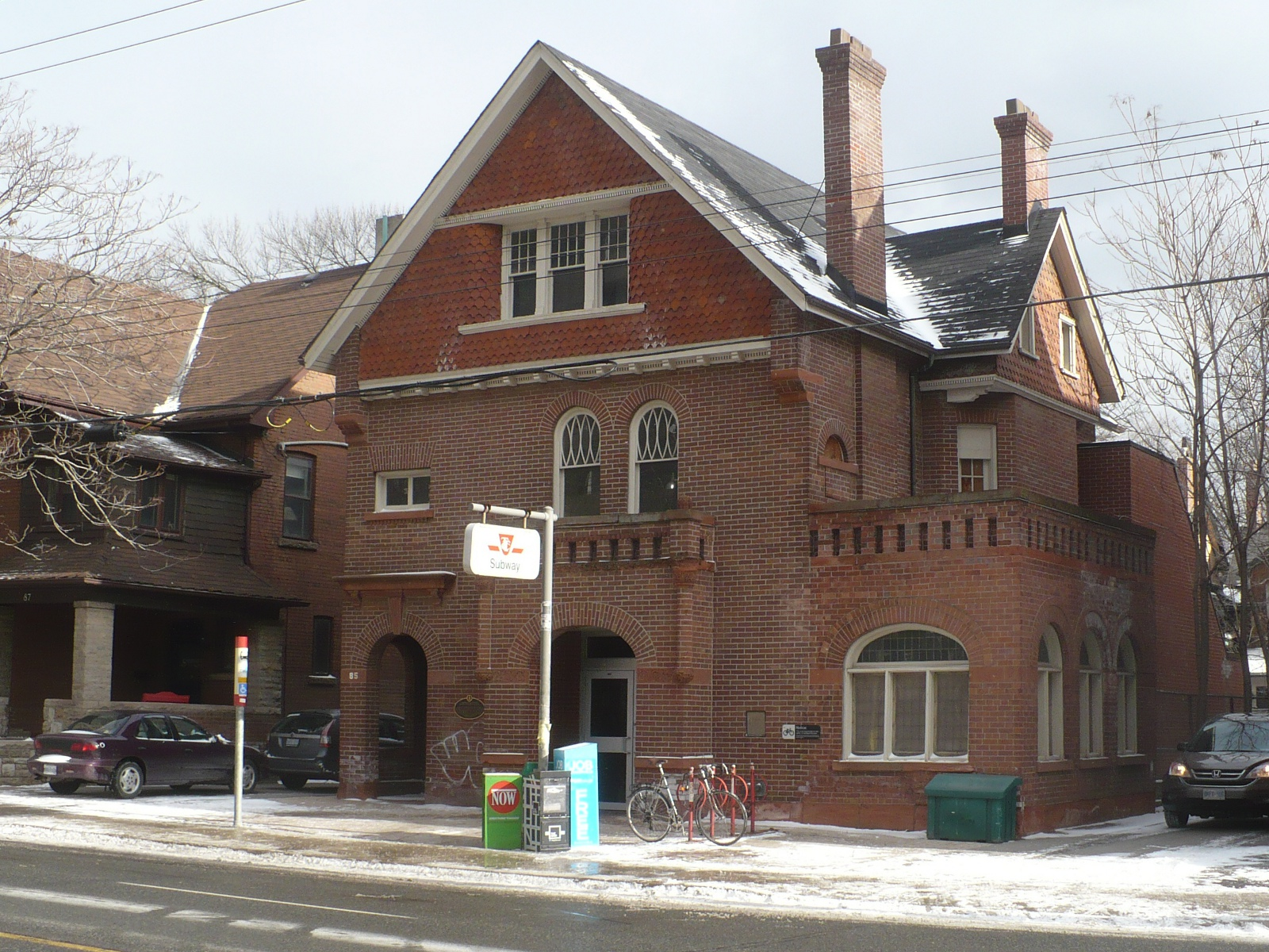 Spadina subway station in Toronto. Entrance at the Norman B. Gash House, 85 Spadina Road